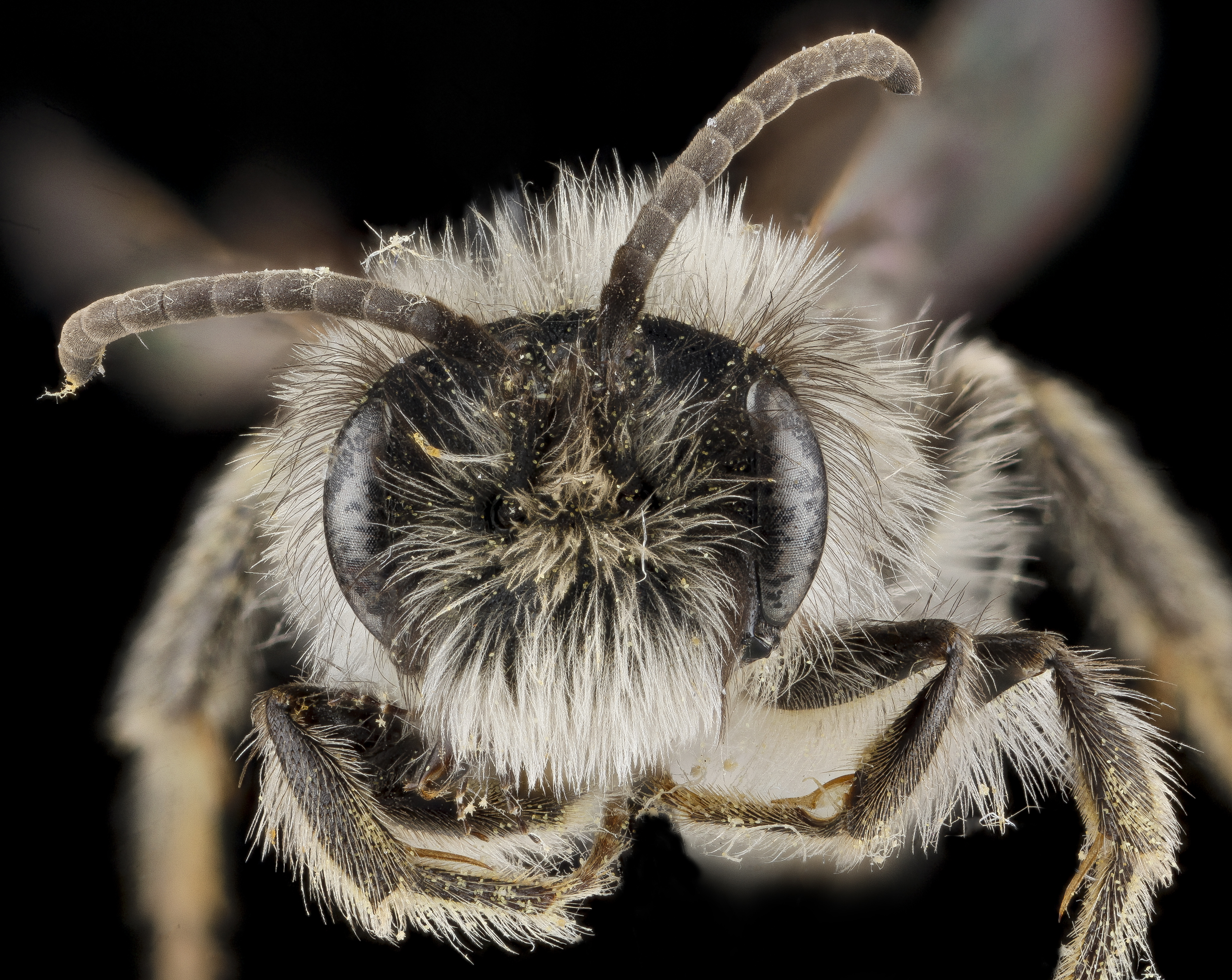 Middlesex County, Massachusetts